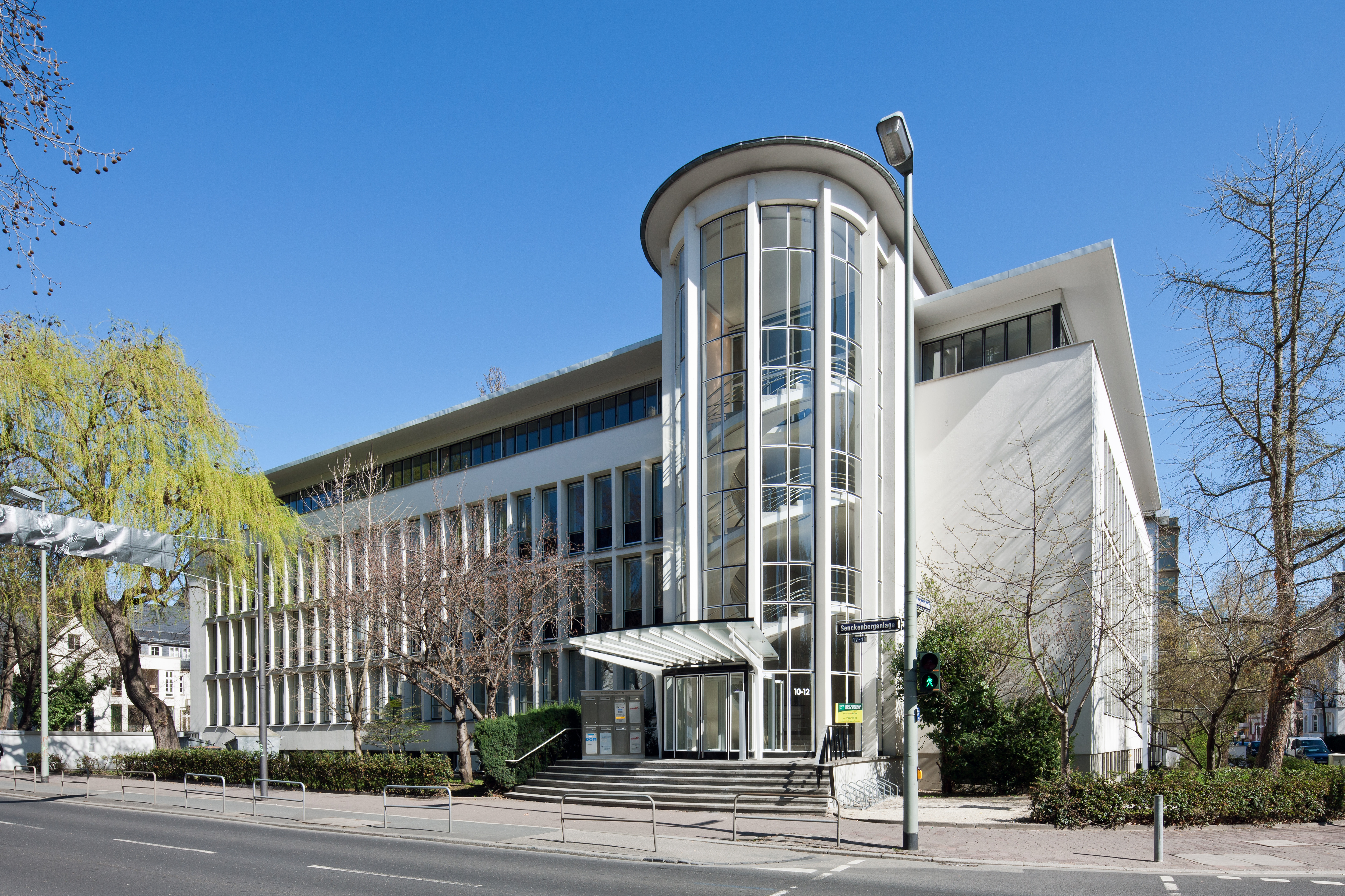 Frankfurt on the Main: Chemag-Haus (Chemag House) as seen from the southwest